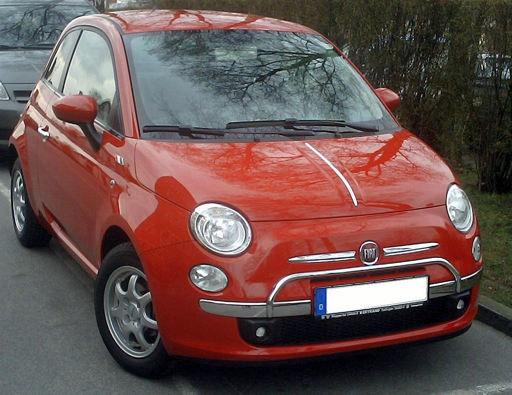 Fiat 500